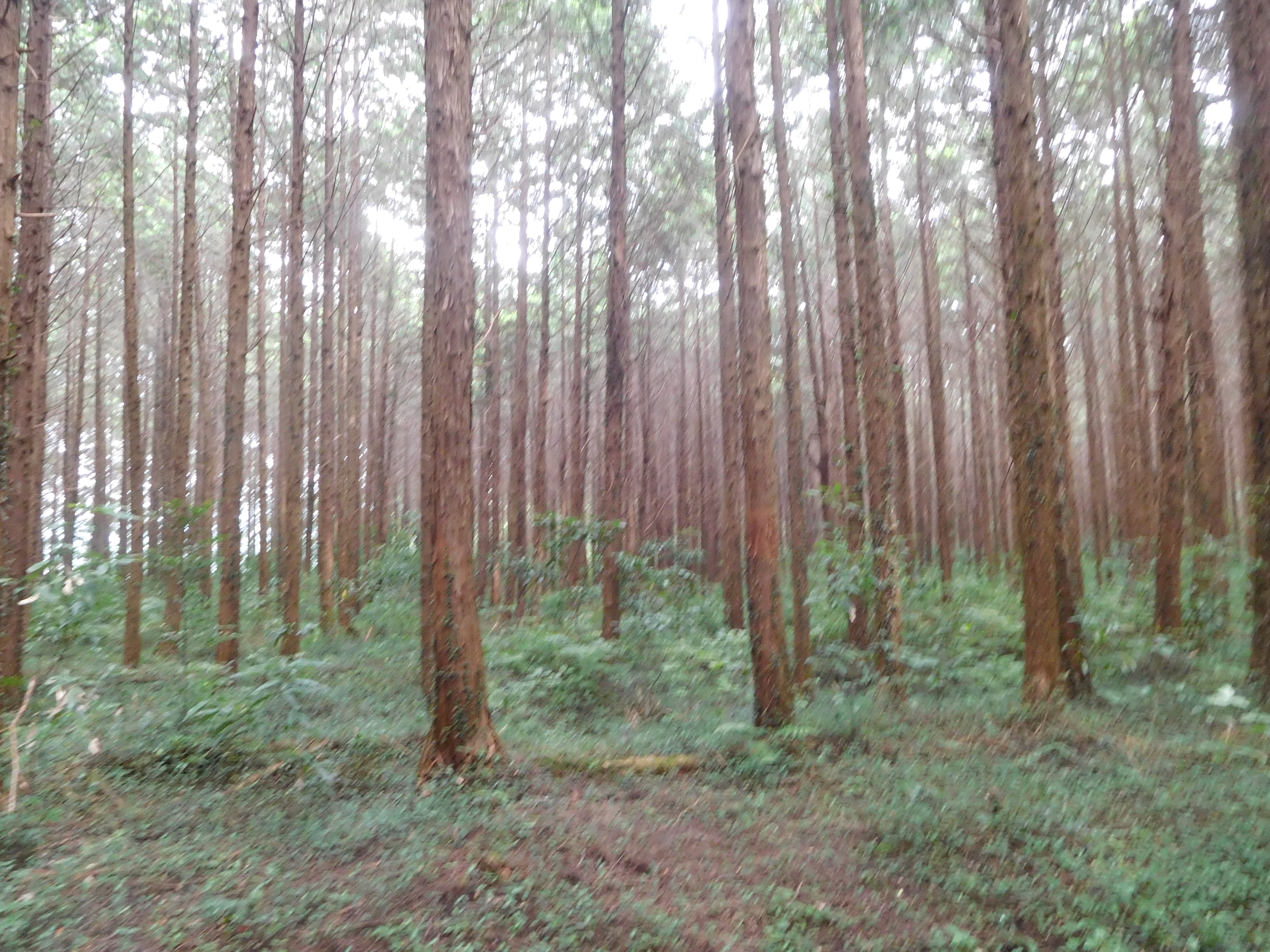 This is the site of Hommaru of Tokujira Castle in Tokujira, Utsunomiya, Tochigi, Japan.